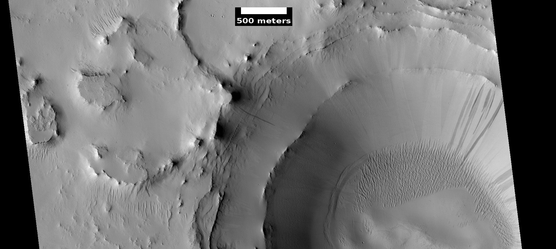 Layers on wall of crater on the floor of Cassini Crater, as seen by hirise under the HiWish program